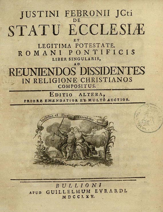 First page of Johann Nikolaus von Hontheim's famous treatise De Statu Ecclesisae, published under the pseudonym Febronius. This is a 1765 reprint of the work first printed in 1763.